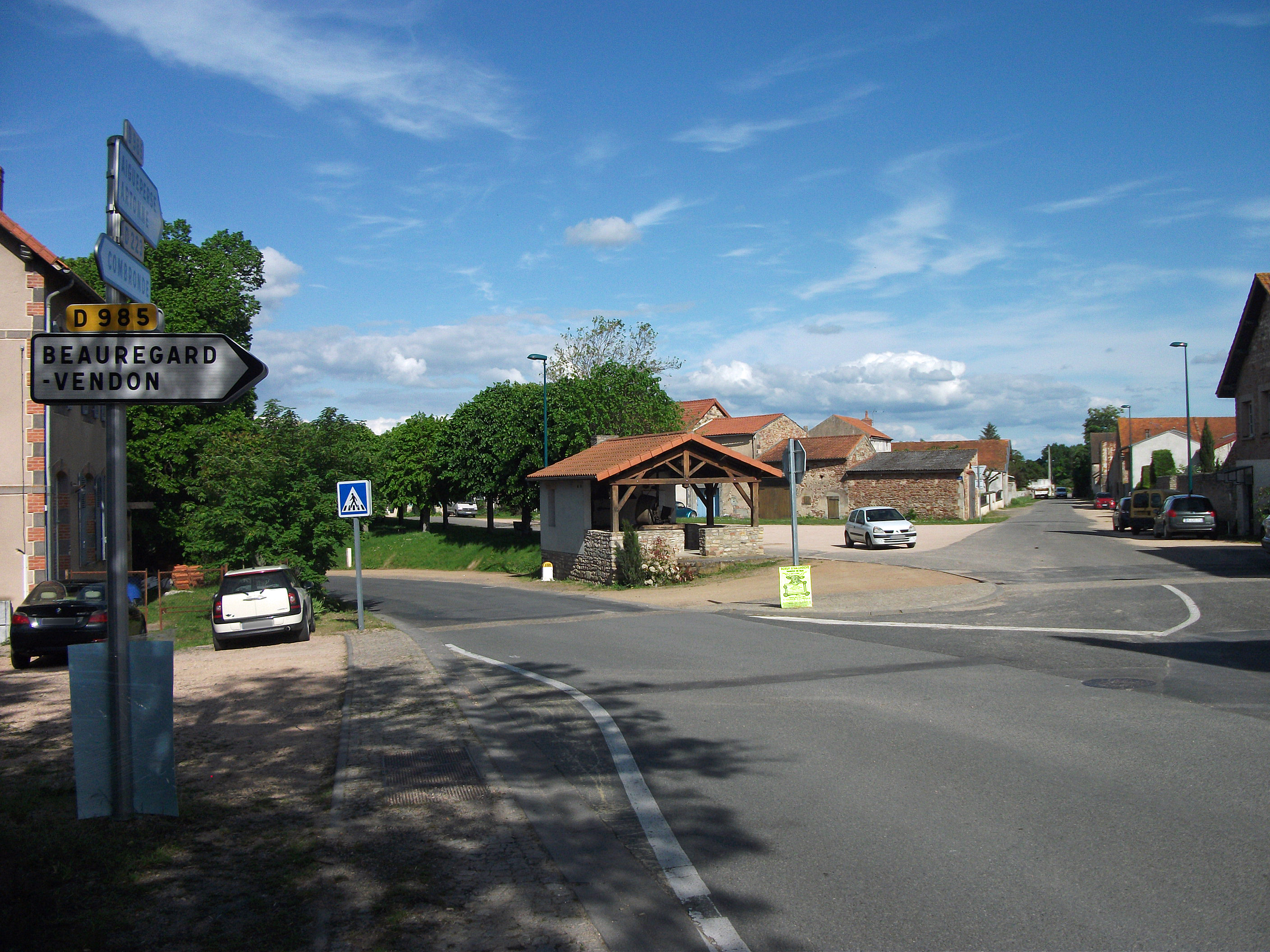 Departmental road 985 towards Aigueperse, in Saint-Myon, Puy-de-Dôme, Auvergne-Rhône-Alpes, France [10868]